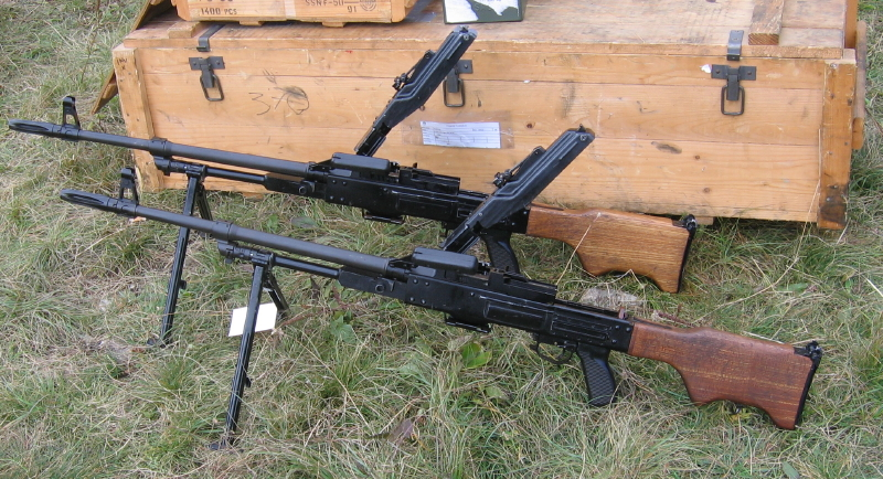 Side view of a pair of Slovene M84 machineguns